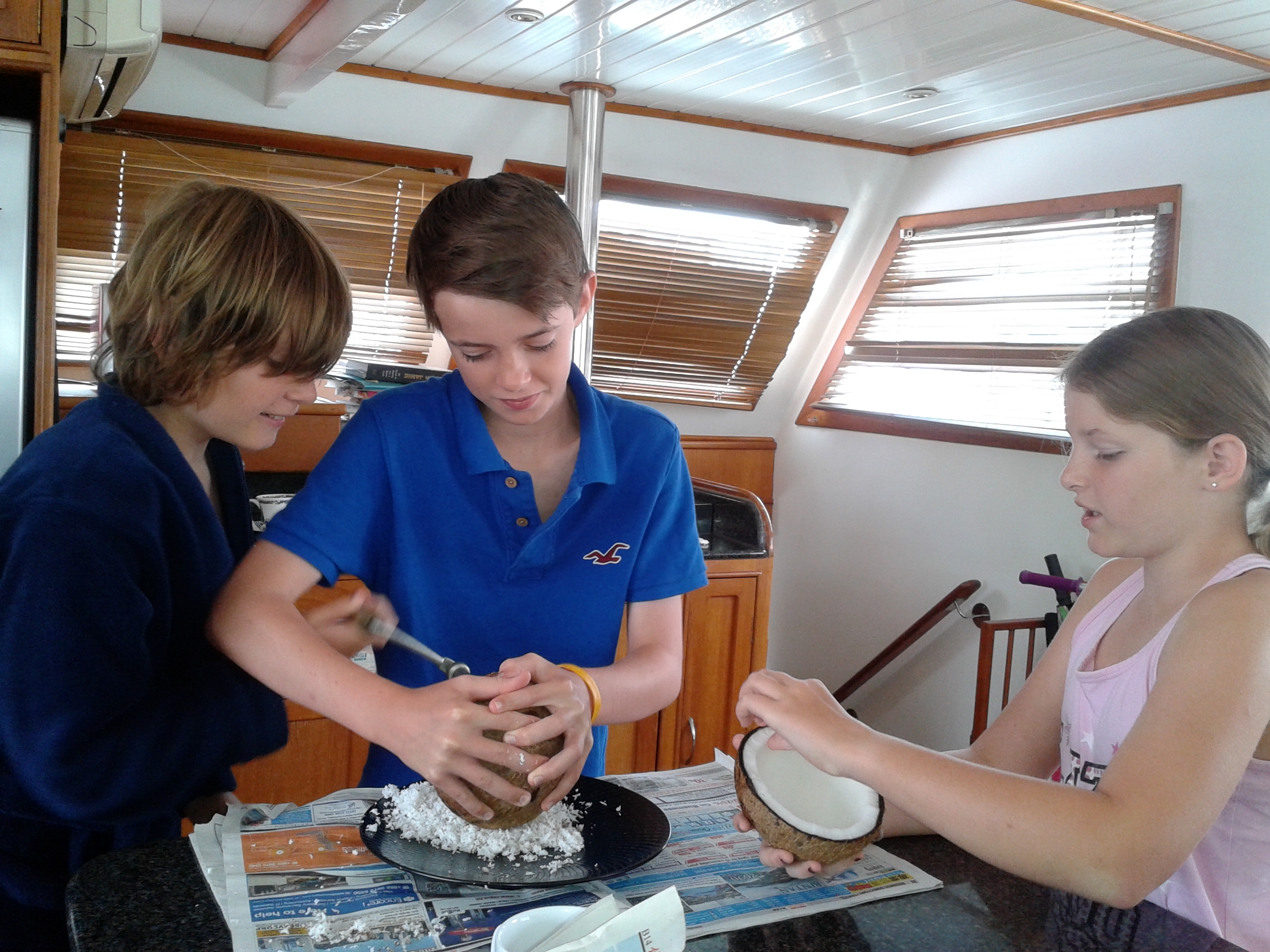 coconut grinding (English Kids) தேங்காய் துருவும் ஆங்கிலச் சிறுவர்கள்